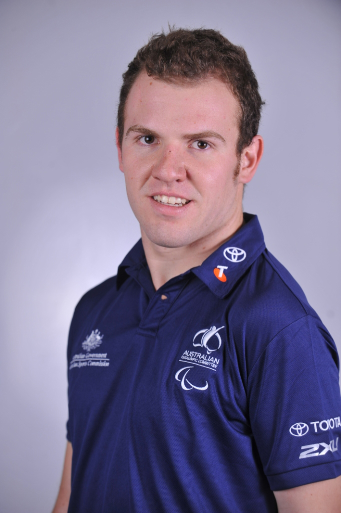 Portrait of Australian swimmer Aaron Rhind, 2012 Australian Paralympic (shadow) Team athlete